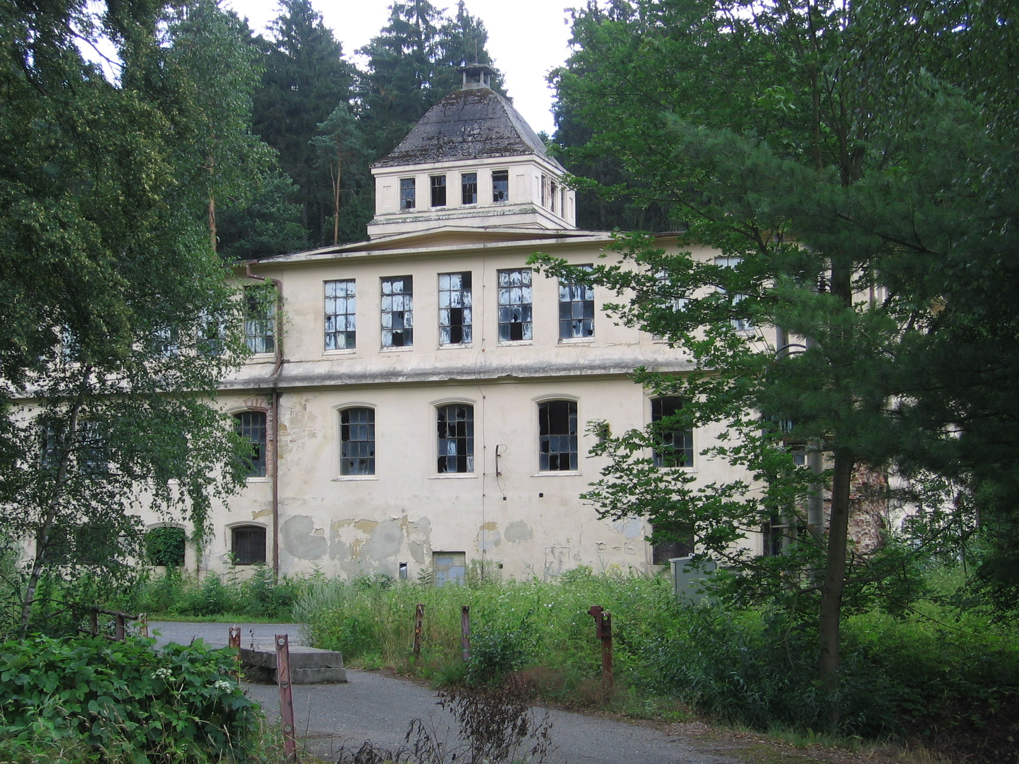 Rabštejn Underground Factory - surface industrial works, originally textile works (near Česká Kamenice, Czech Republic)